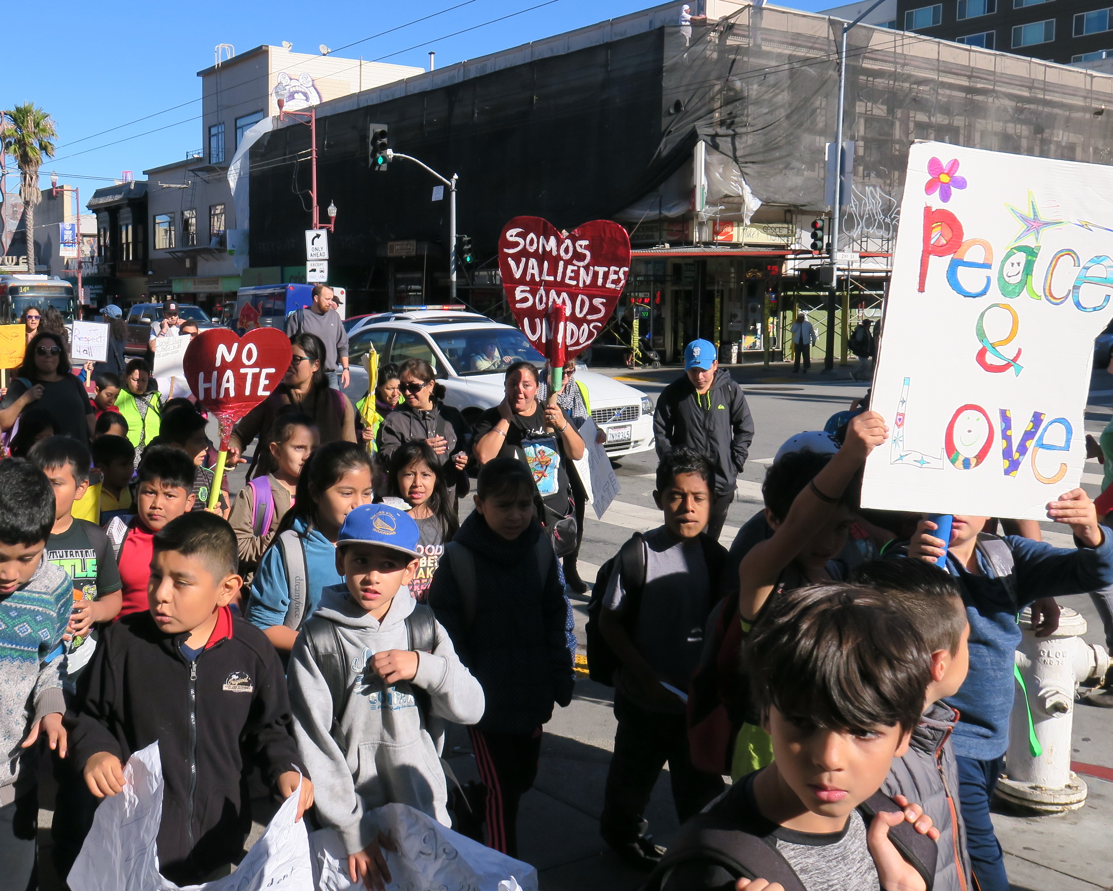 Love Trumps Hate in the SF Mission14